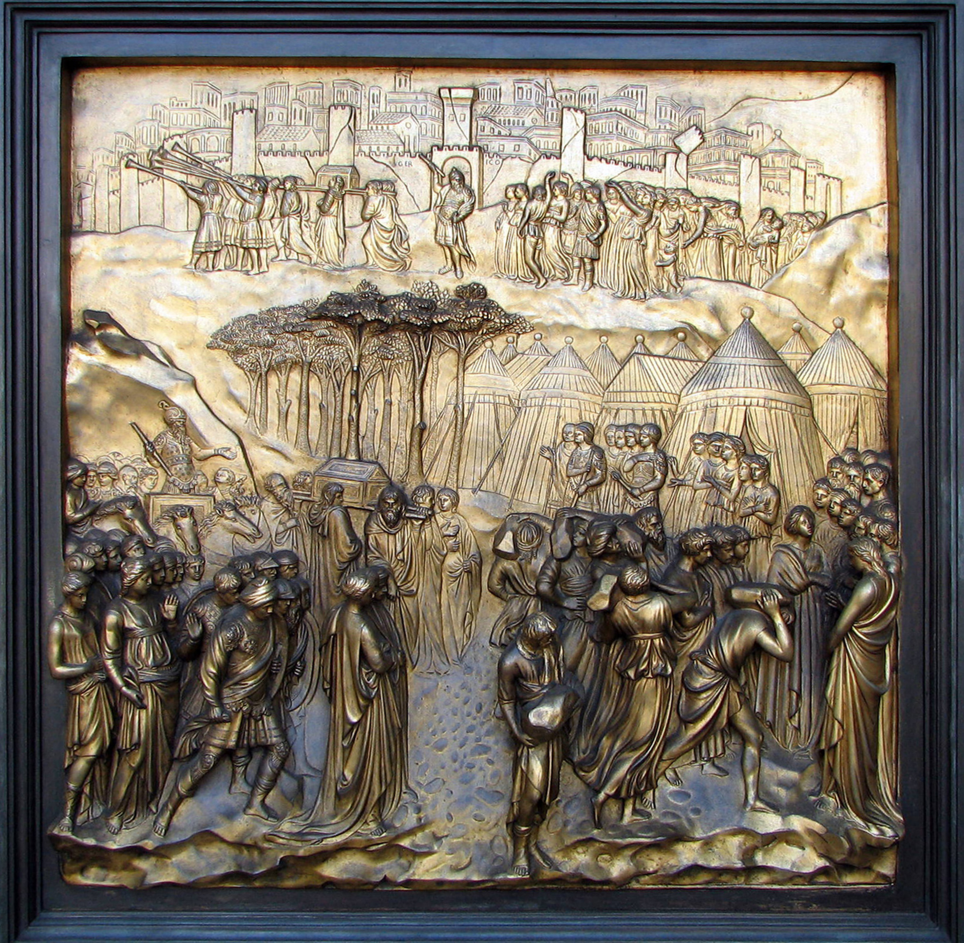 The Battle of Jericho on Ghiberti doors, Grace Cathedral, San Francisco, California, USA